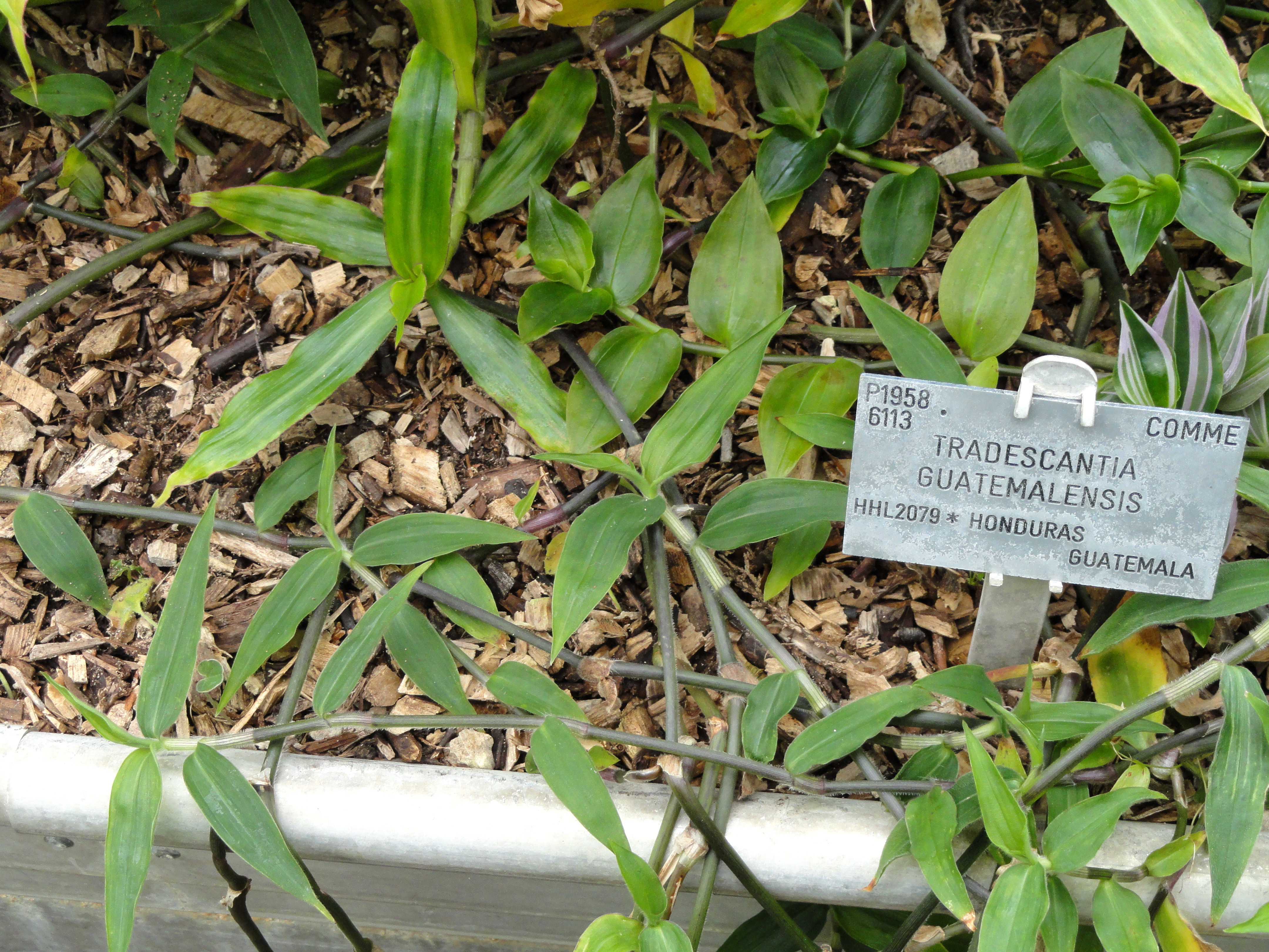 Botanical specimen in the University of Copenhagen Botanical Garden, Copenhagen, Denmark.